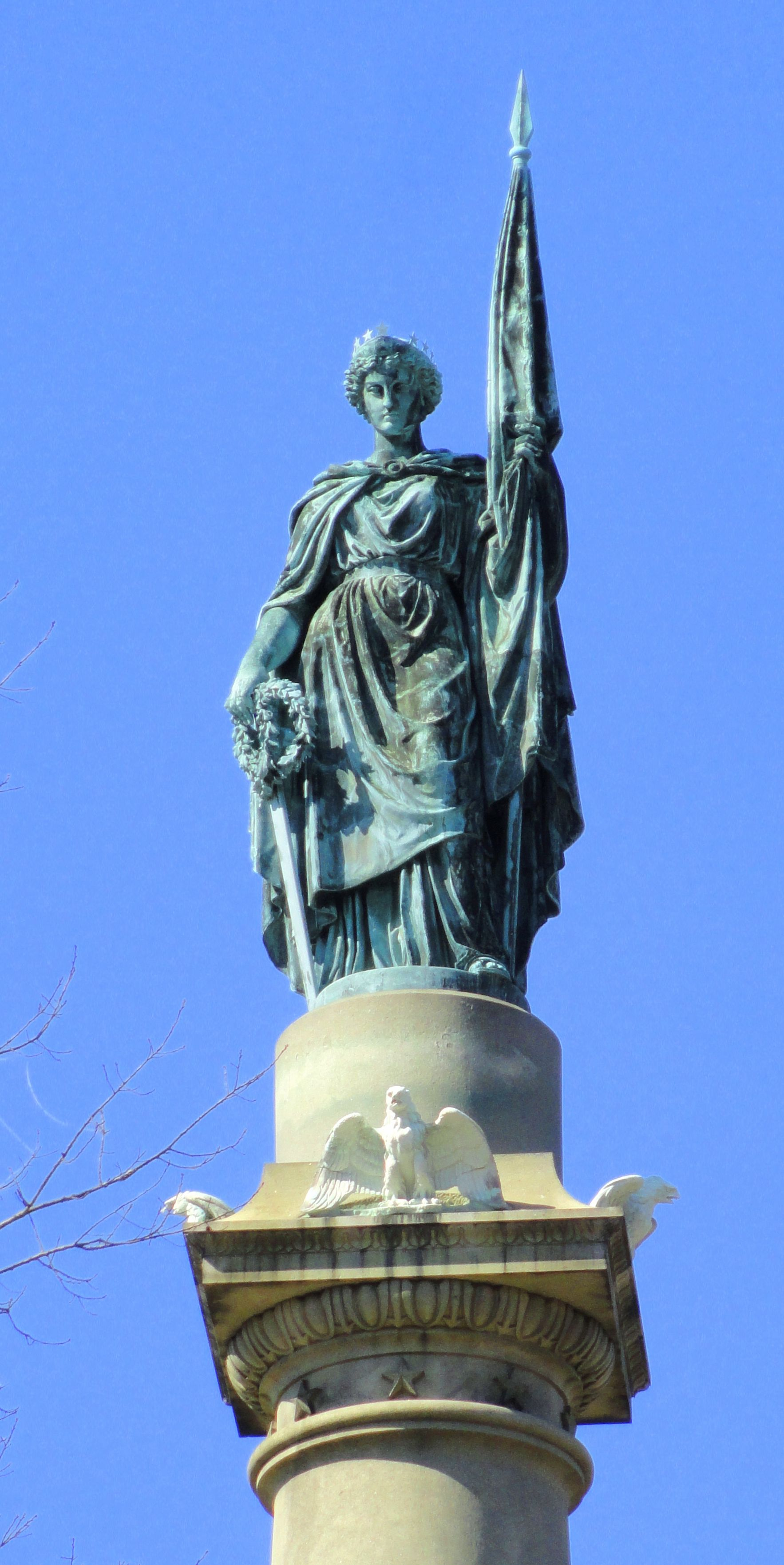 Detail of Soldiers and Sailors Monument, Boston Common, Boston, Massachusetts, USA. This artwork is in the public domain because the artist died more than 70 years ago.